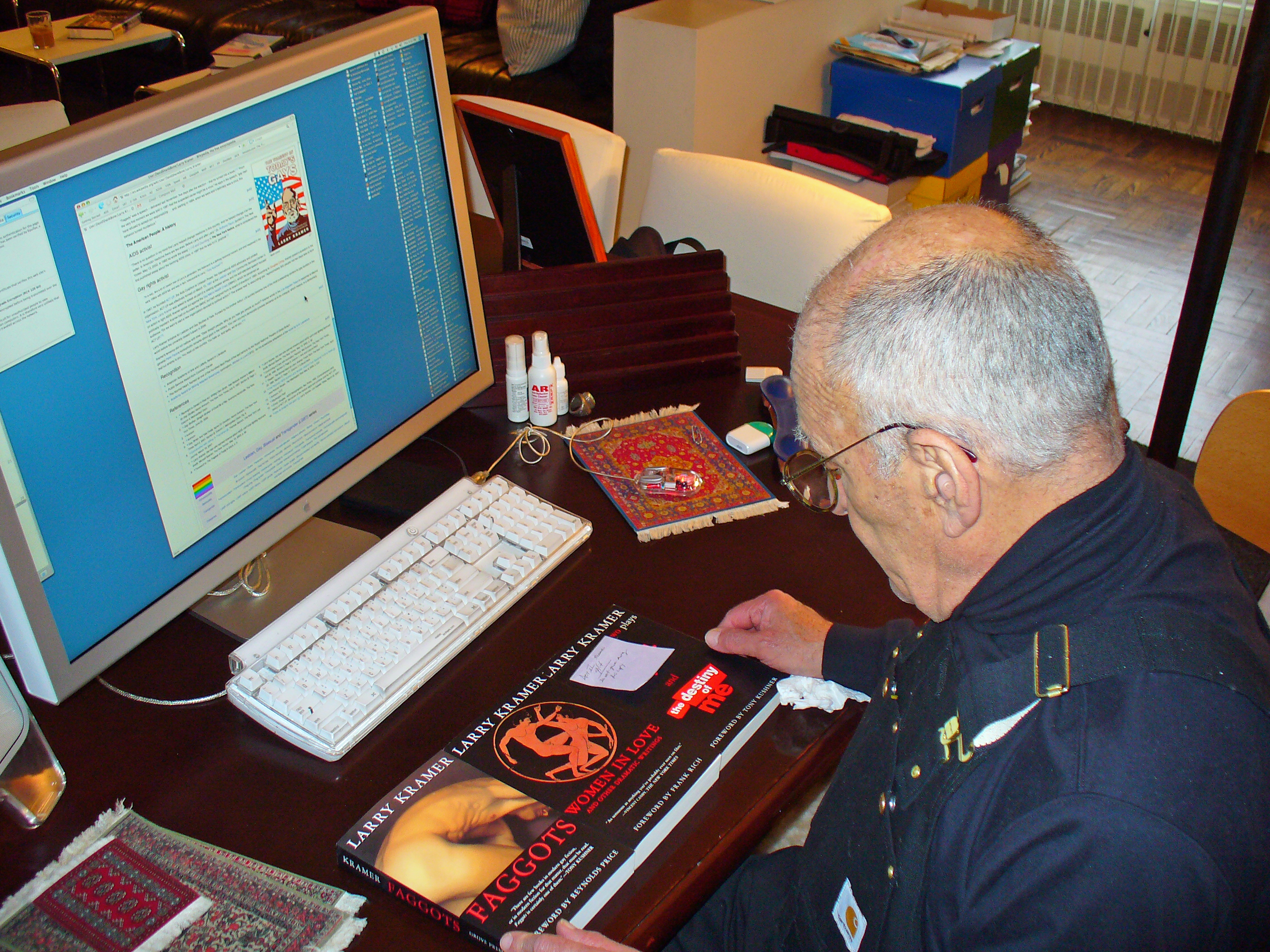 Larry Kramer at home in New York City.